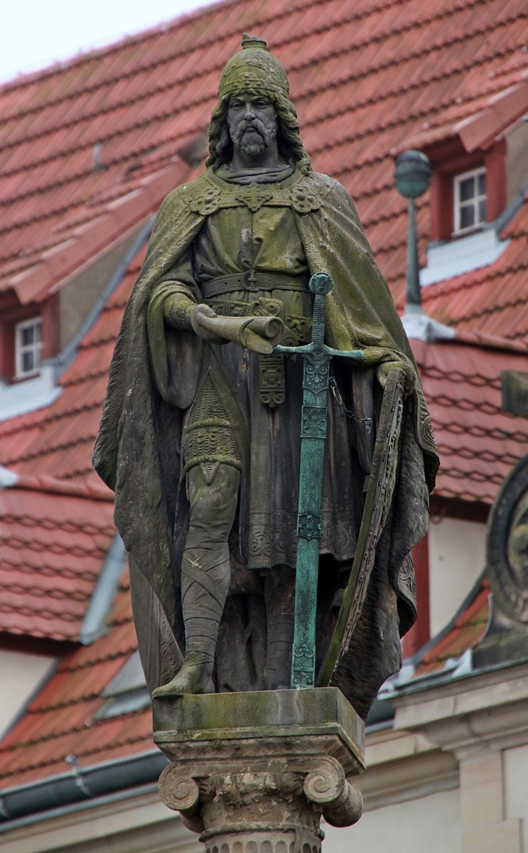 Güstrow: this image shows a statue of Heinrich Borwin II. (1170-1226), Lord in the Land of the Obotrites (Mecklenburg).